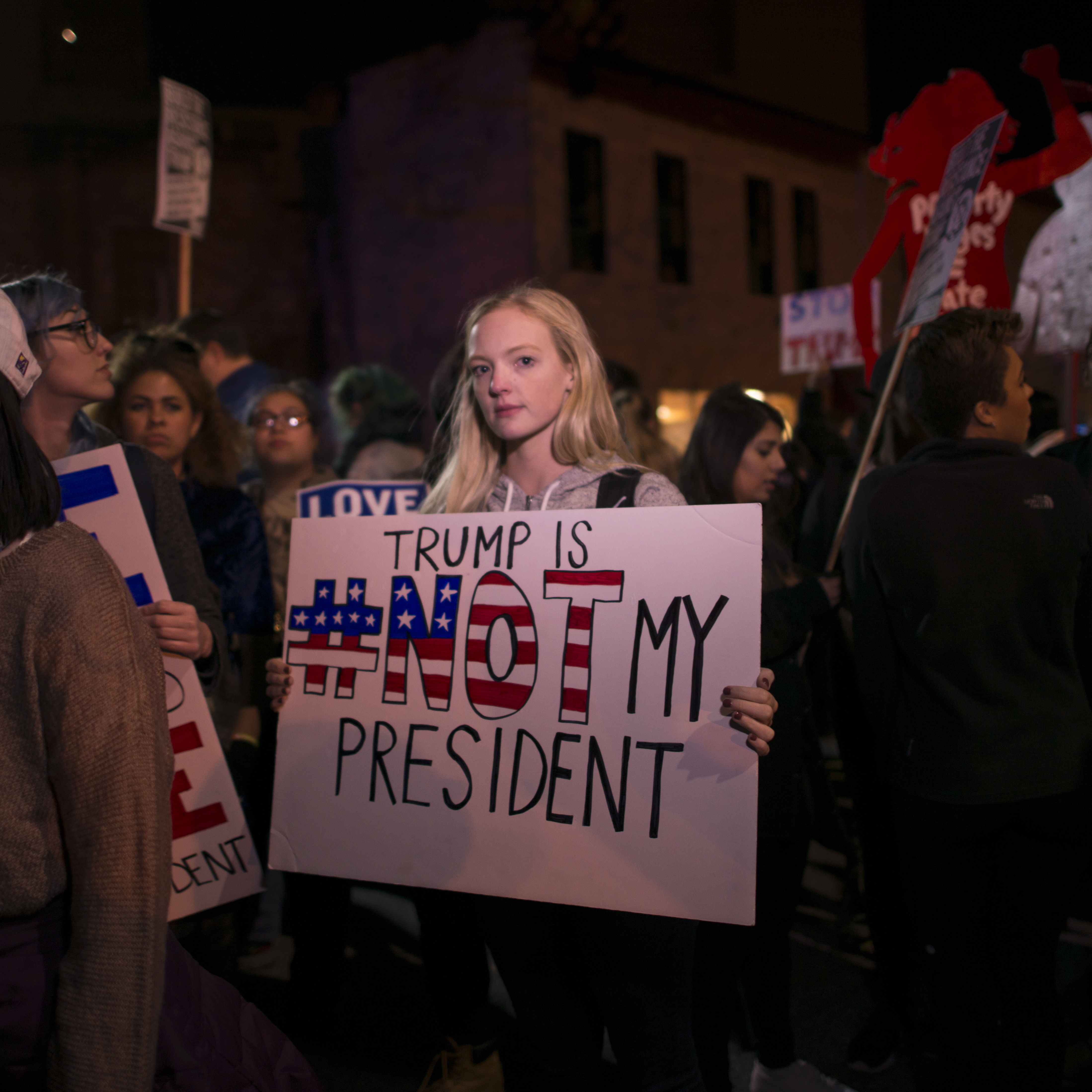 Minneapolis, Minnesota November 10, 2016 About 4000 people gathered in Minneapolis to protest the election of Donald Trump. Protesters denounced bigotry, racism, sexism, Islamophobia and Trump's proposed policies on immigration. They called for building a movement to oppose President-elect Donald Trump. On November 8, Donald Trump won a sufficient number of electors in the United States Electoral College (306 out of 538) to become President, but Hillary Clinton received more votes overall. Donald Trump won 59,704,886 votes and Hillary Clinton won 59,938,290 votes - approximately 233,000 more votes than Trump (numbers from Google at 11:40am November 10). 2016-11-10 This is licensed under a Creative Commons Attribution License. Give attribution to: Fibonacci Blue Minneapolis Trump Protest